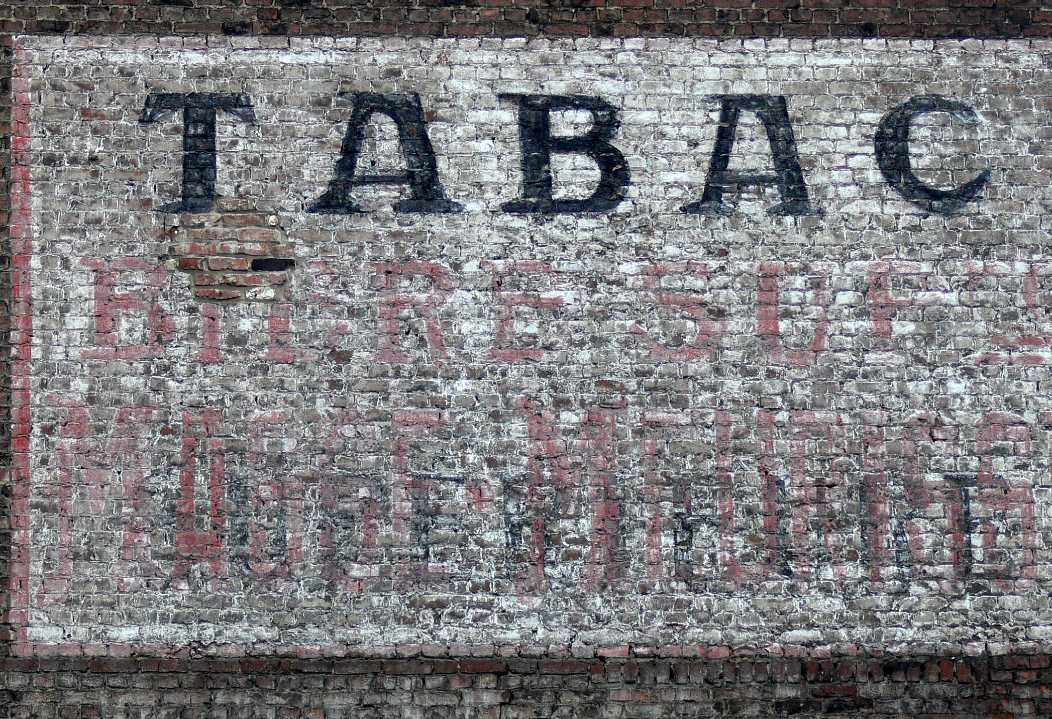 Tobacco ghost sign in France.